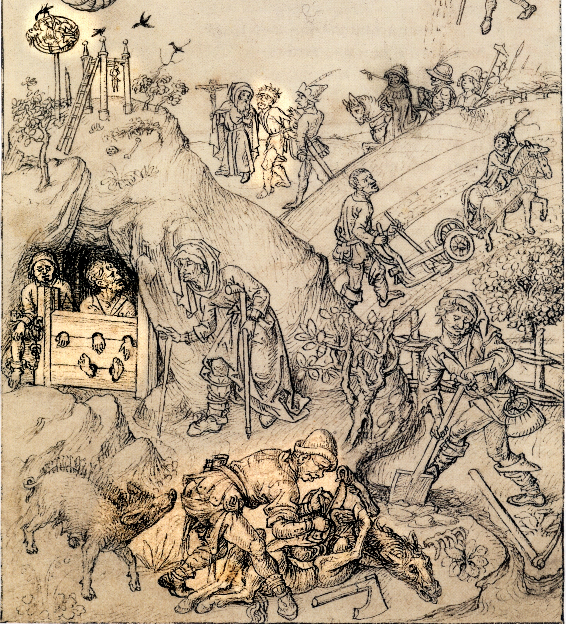 Detail from "Venus und Mars. Das mittelalterliche Hausbuch aus der Sammlung der Fürsten von Waldburg Wolfegg“. München 1997, ISBN 3-7913-1839-X"